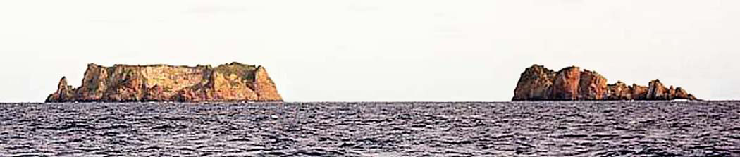 Picture of Curtis and Cheeseman Islands, Kermadec Islands, north of New Zealand